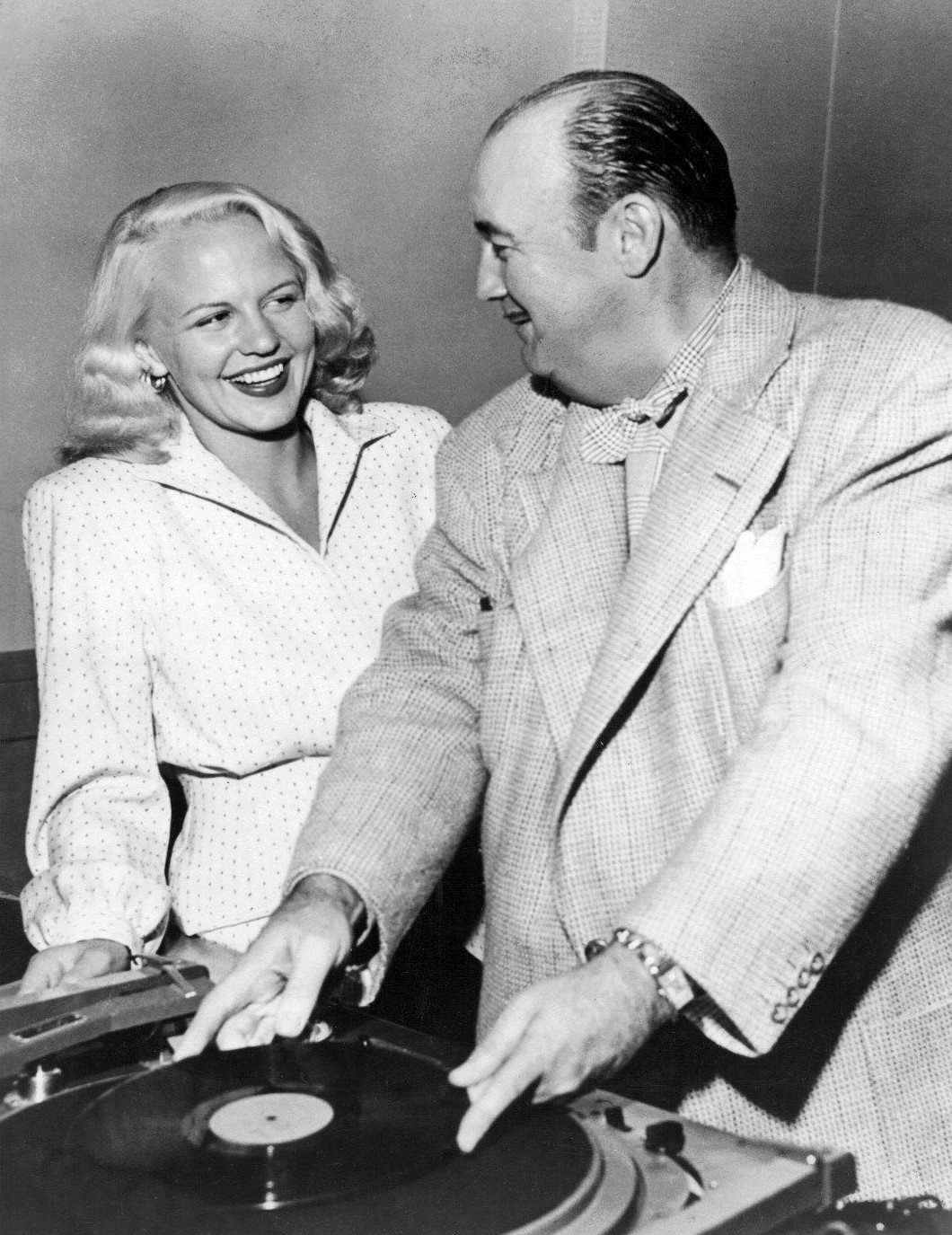 Photo of Peggy Lee and bandleader Paul Whiteman during Whiteman's radio program, The Paul Whiteman Club.